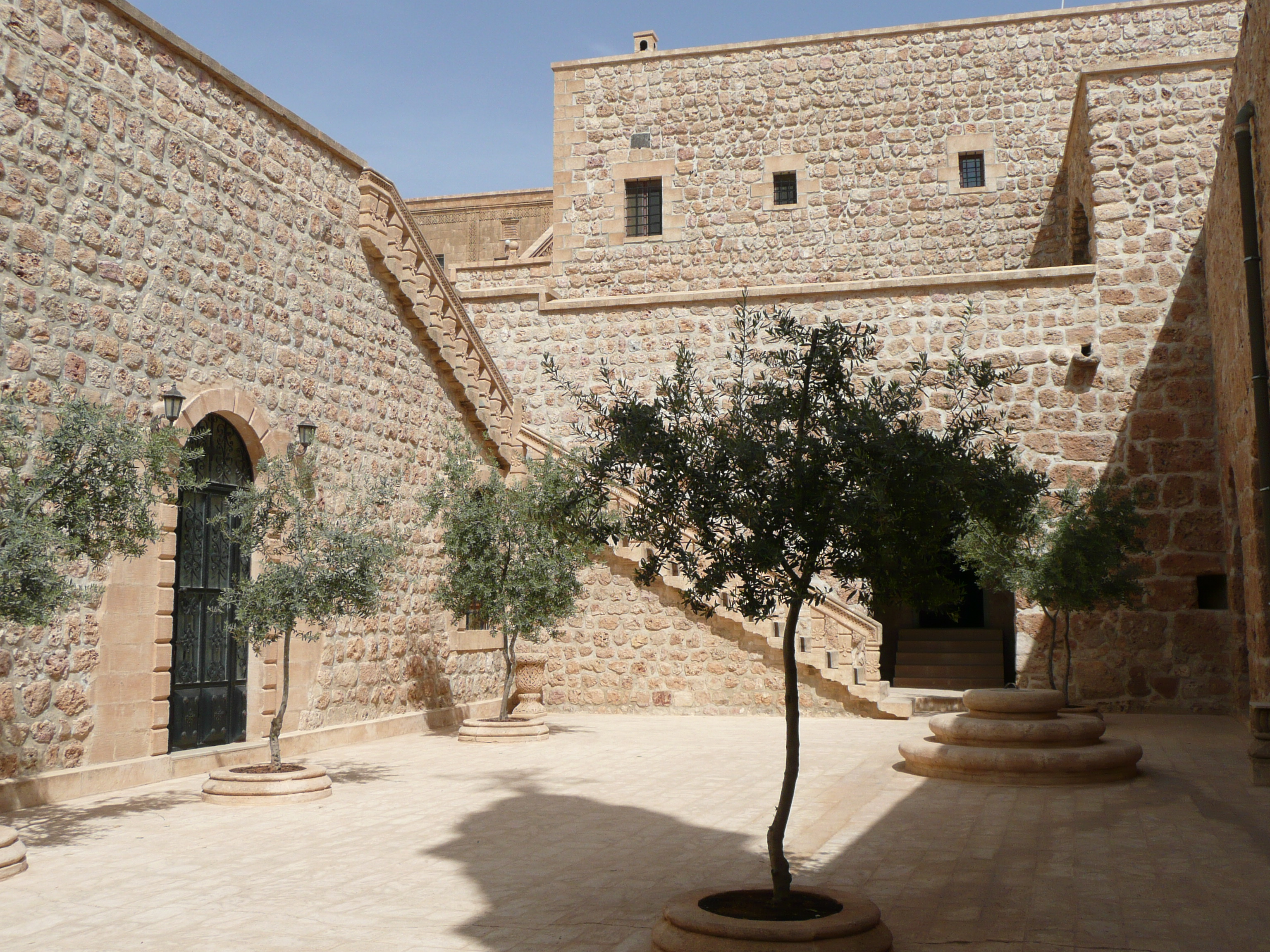 Photographs from Deyrulumur (Mor Gabriel Monastery) , Midyat, Turkey